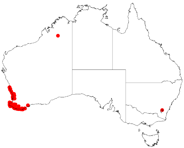 Scaevola nitida occurrence data downloaded from Australasian Virtual Herbarium 12 May 2019